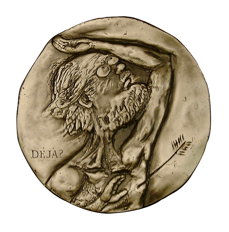 Medal by Ronald Searle titled "Searle at 70" showing the reverse side of the medal. 70mm diameter approximately. Medal struck by Thomas Fattorini Ltd